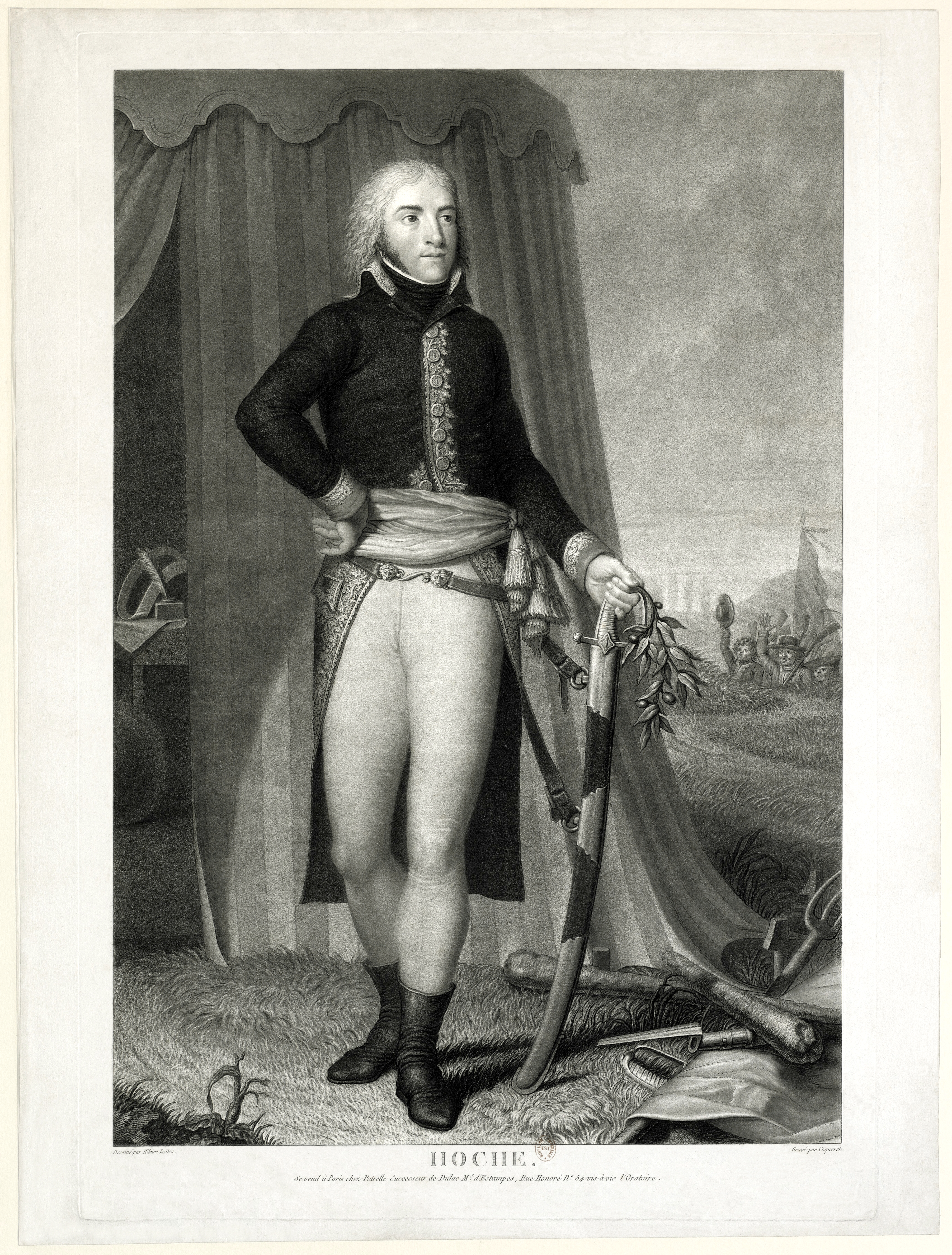 Lazare Hoche (1768 - 1797), french general.